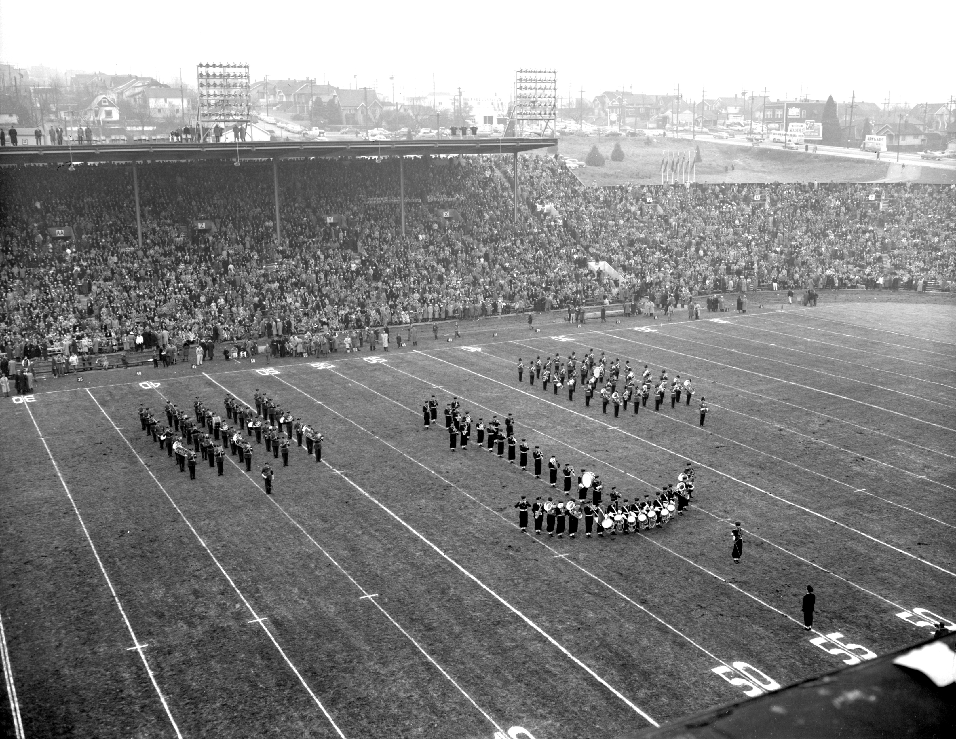 Grey Cup, marching band at the Empire Stadium VPL Accession Number: 82932D Date: November 26, 1955 Photographer/Studio: DeWitt, Eric Content: Photo series 82932 A-AB (29 negatives) Topic: Bands (Music) Stadiums Organization: Empire Stadium (Vancouver, B.C.) B.C. Lions Football Club Location: British Columbia - Vancouver - Hastings-Sunrise - Hastings Community Park More information on our historical photograph collection